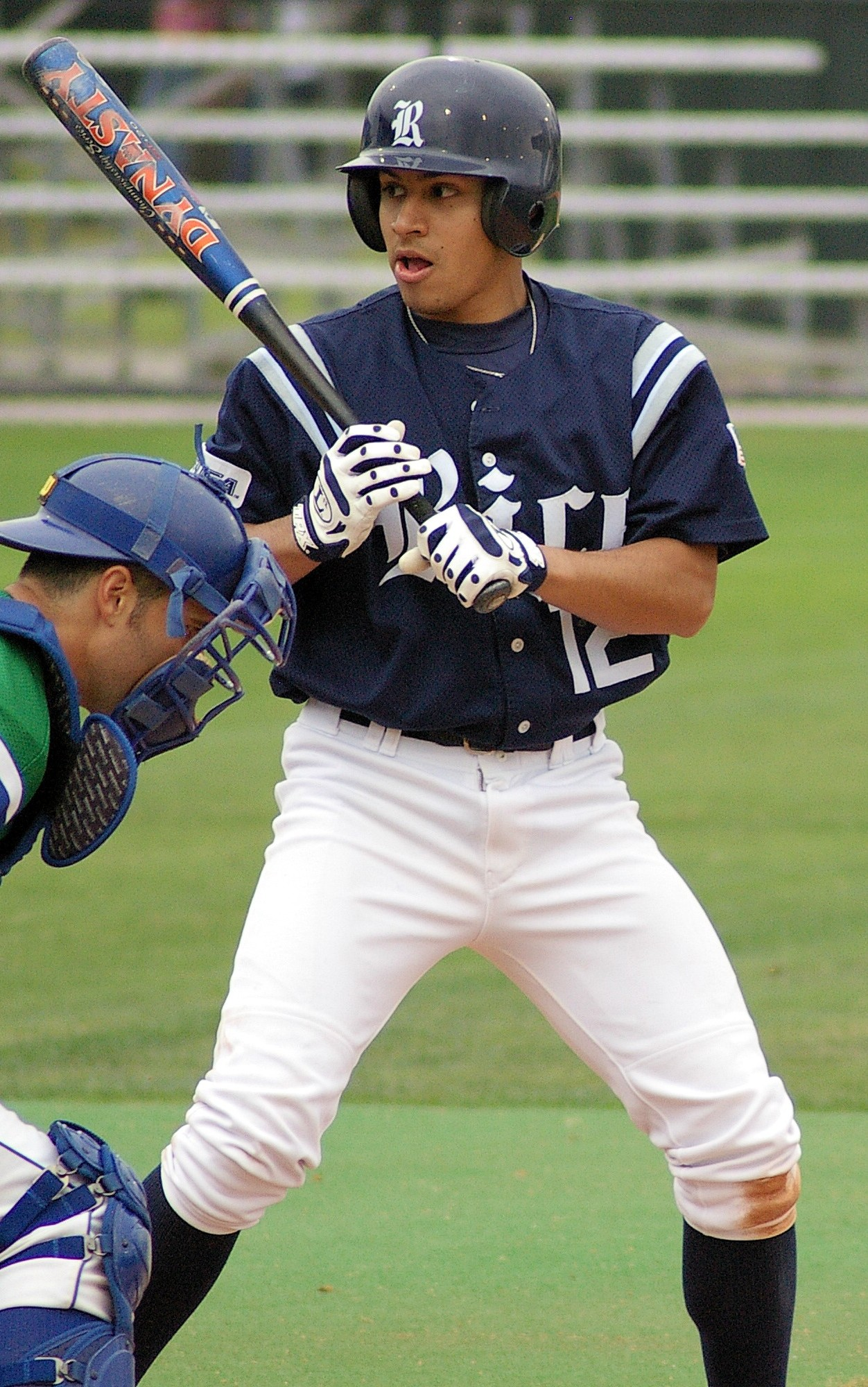 Josh Rodriguez bats for the Rice Owls during a March 2006 game.